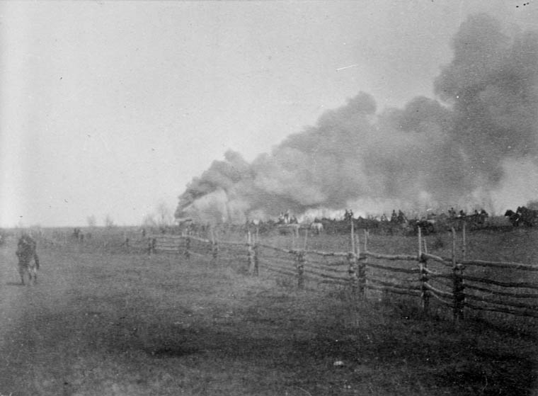 The beginning of the Battle of Batoche during the North-West Rebellion of 1885. Fish Creek, Saskatchewan, Canada.